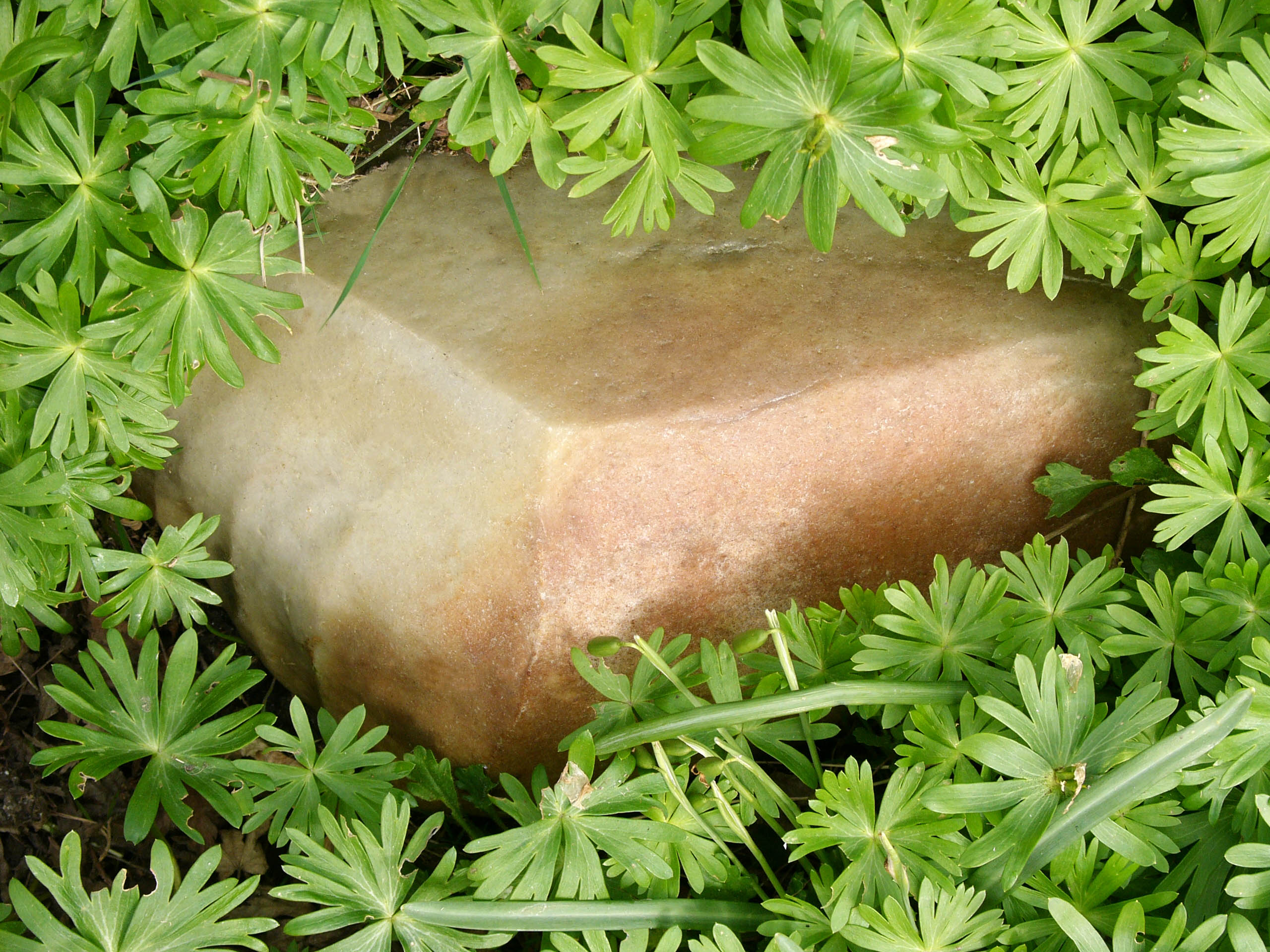 Ventifact from Denmark (35 cm in length) formed by strong wind off the retreating ice sheet.